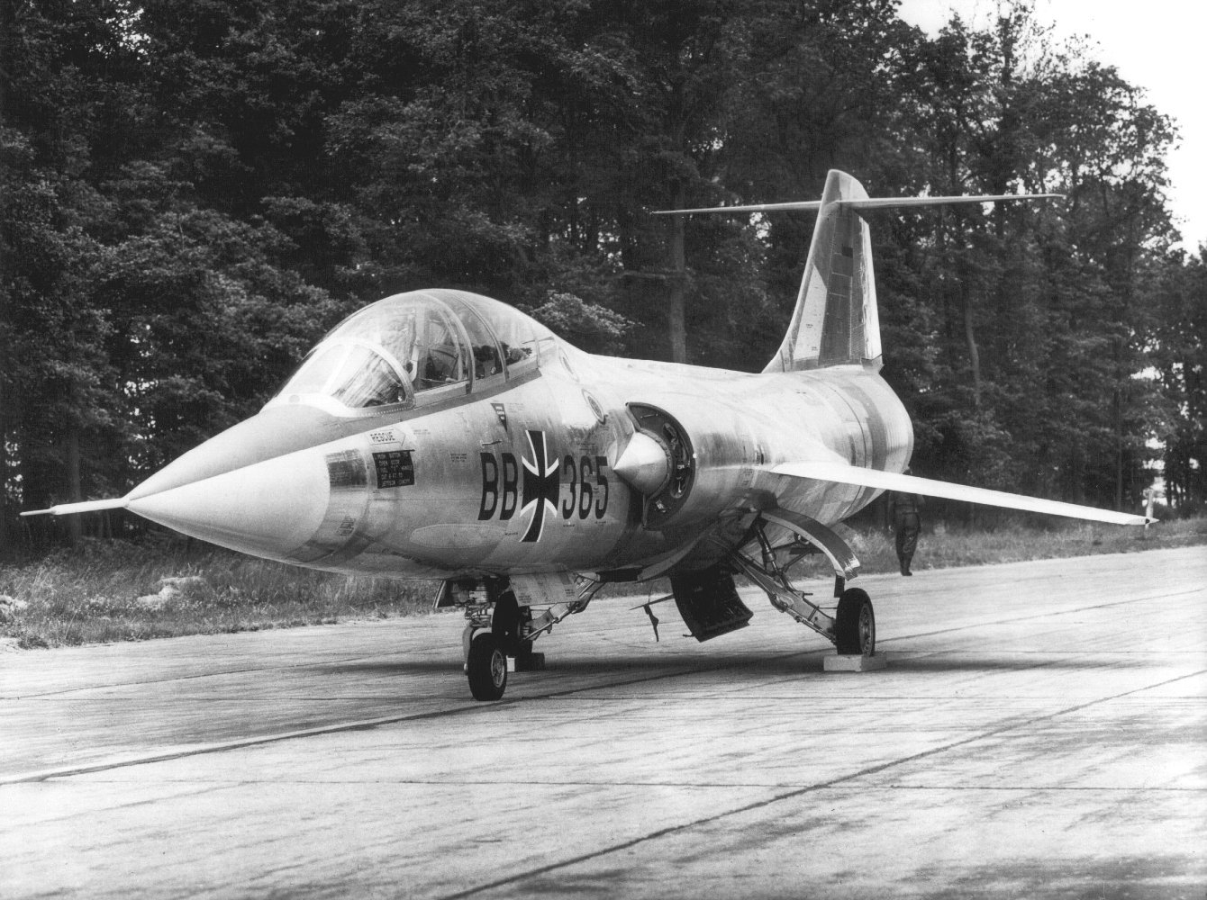 A West German Luftwaffe Lockheed F-104F Starfighter aircraft (serial BB+365), in 1960. This aircraft was lost on 19 June 1962 near Knapsack, Nordrhein-Westfalen (Germany), when four planes crashed into the ground after disorientation of one of the (trainee) wingmen. All pilots, three Germans and one American, were killed.